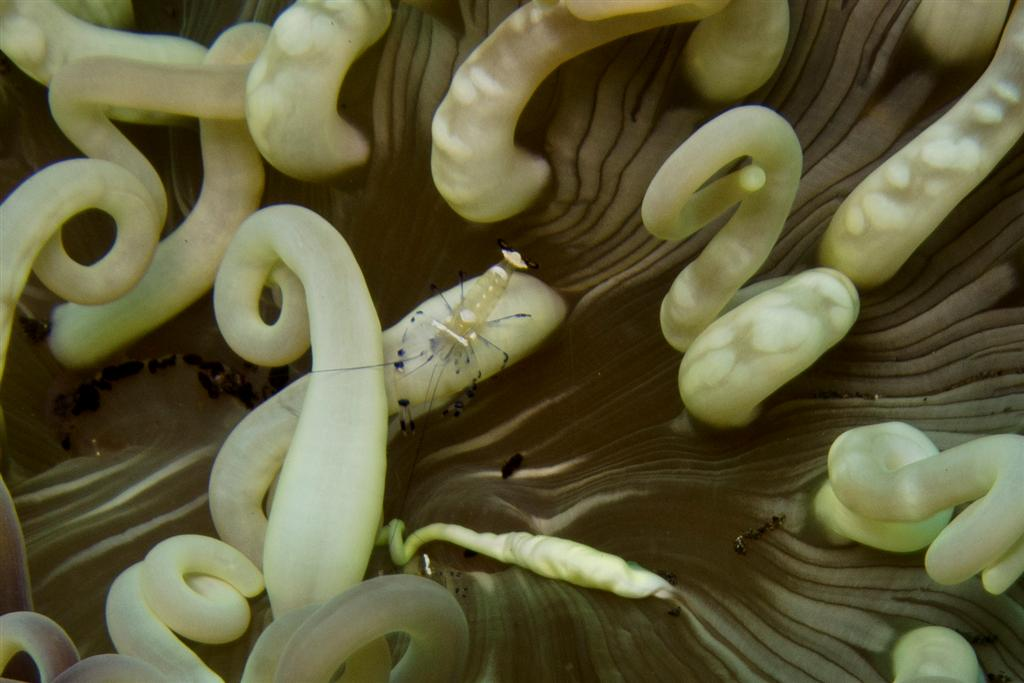 Cleaner Anemone Shrimp